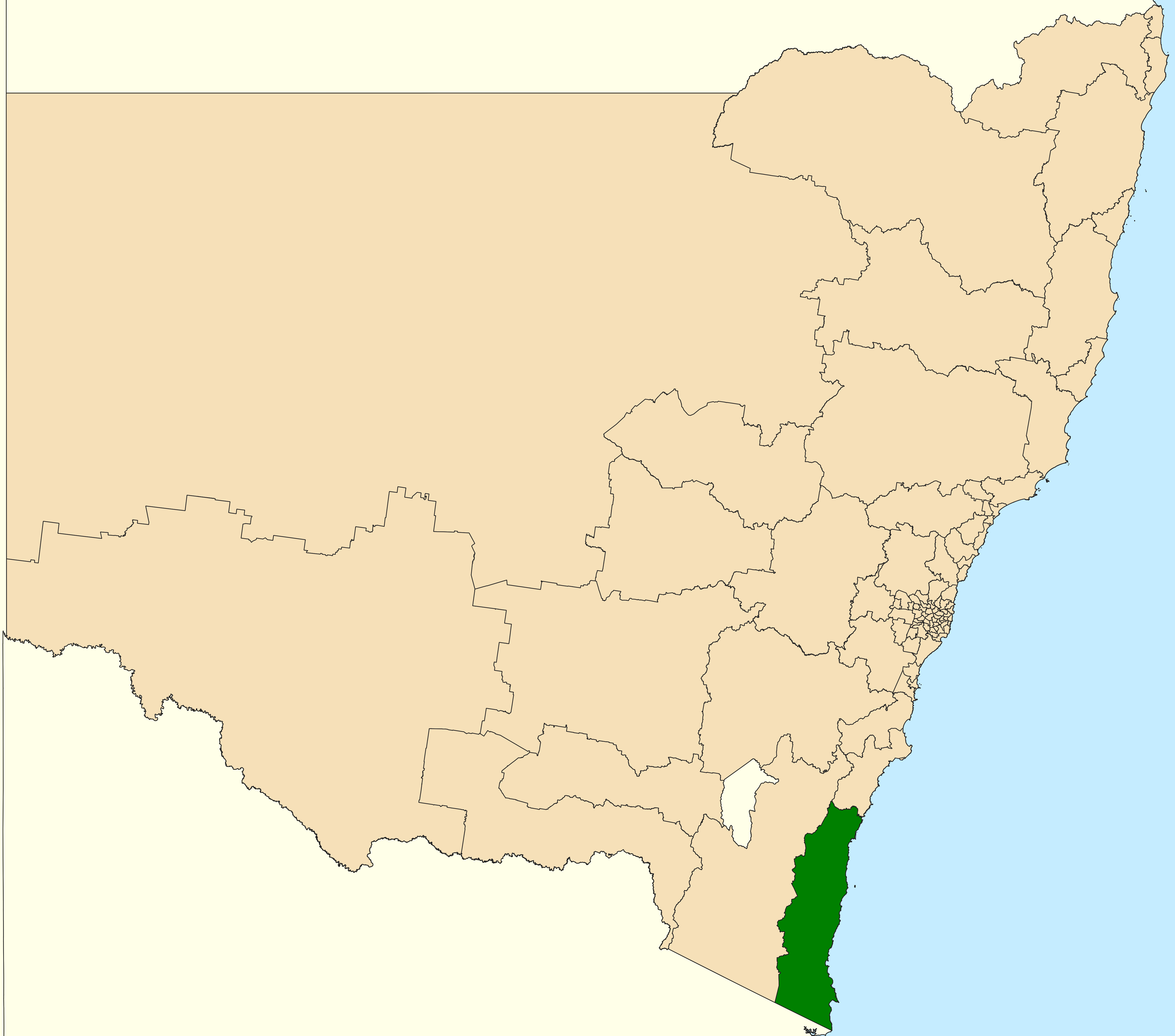 Location of the state electoral district of Bega (dark green) in New South Wales as of the 2019 New South Wales state election. Incorporates or developed using Administrative Boundaries ©PSMA Australia Limited licensed by the Commonwealth of Australia under Creative Commons Attribution 4.0 International licence (CC BY 4.0).